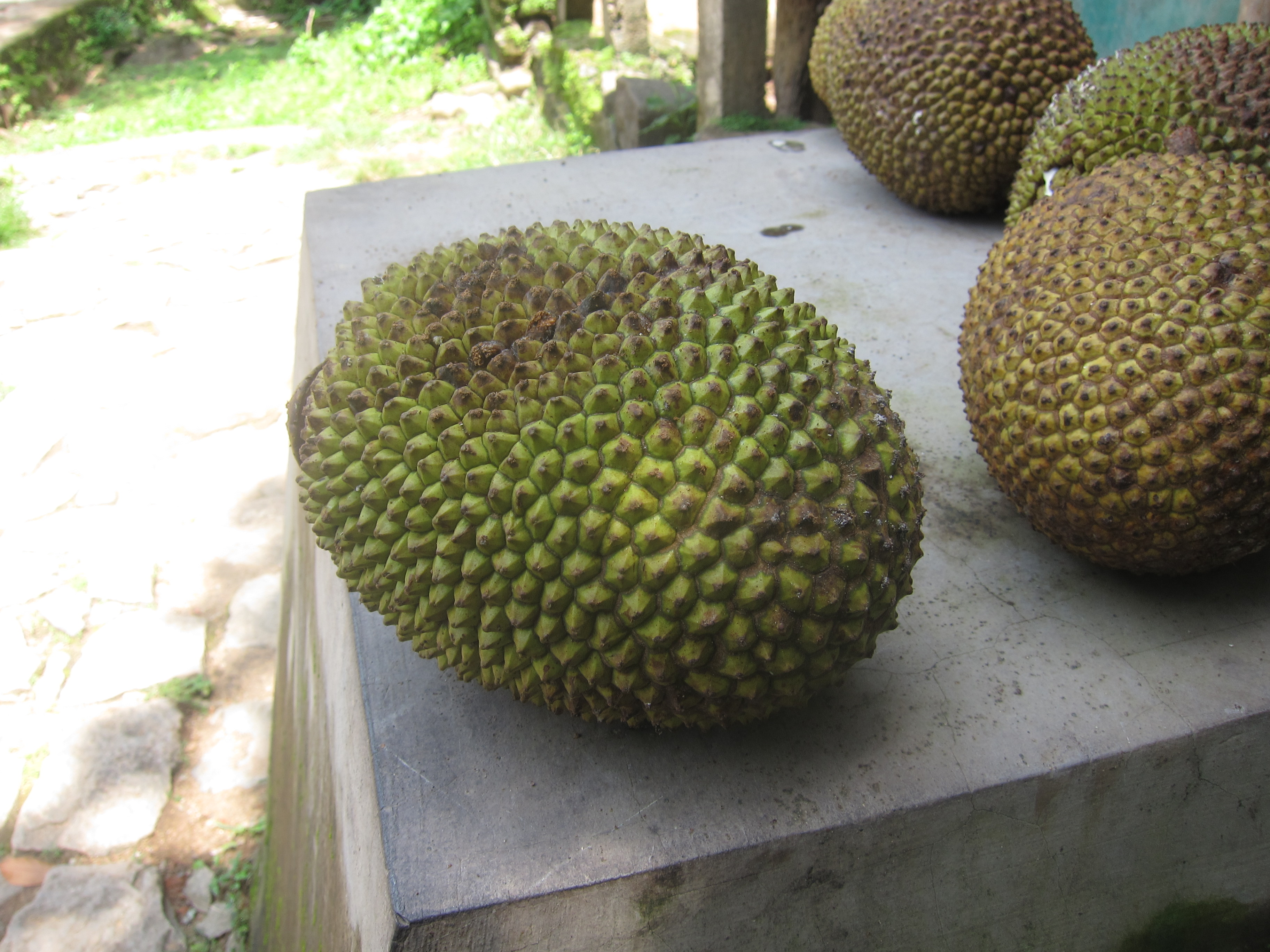 തേങ്ങച്ചക്ക... ഒരു തേങ്ങയുടെ വലുപ്പമേയുള്ളൂ... Jackfruit ചക്ക പ്ലാവ് പിലാവ്